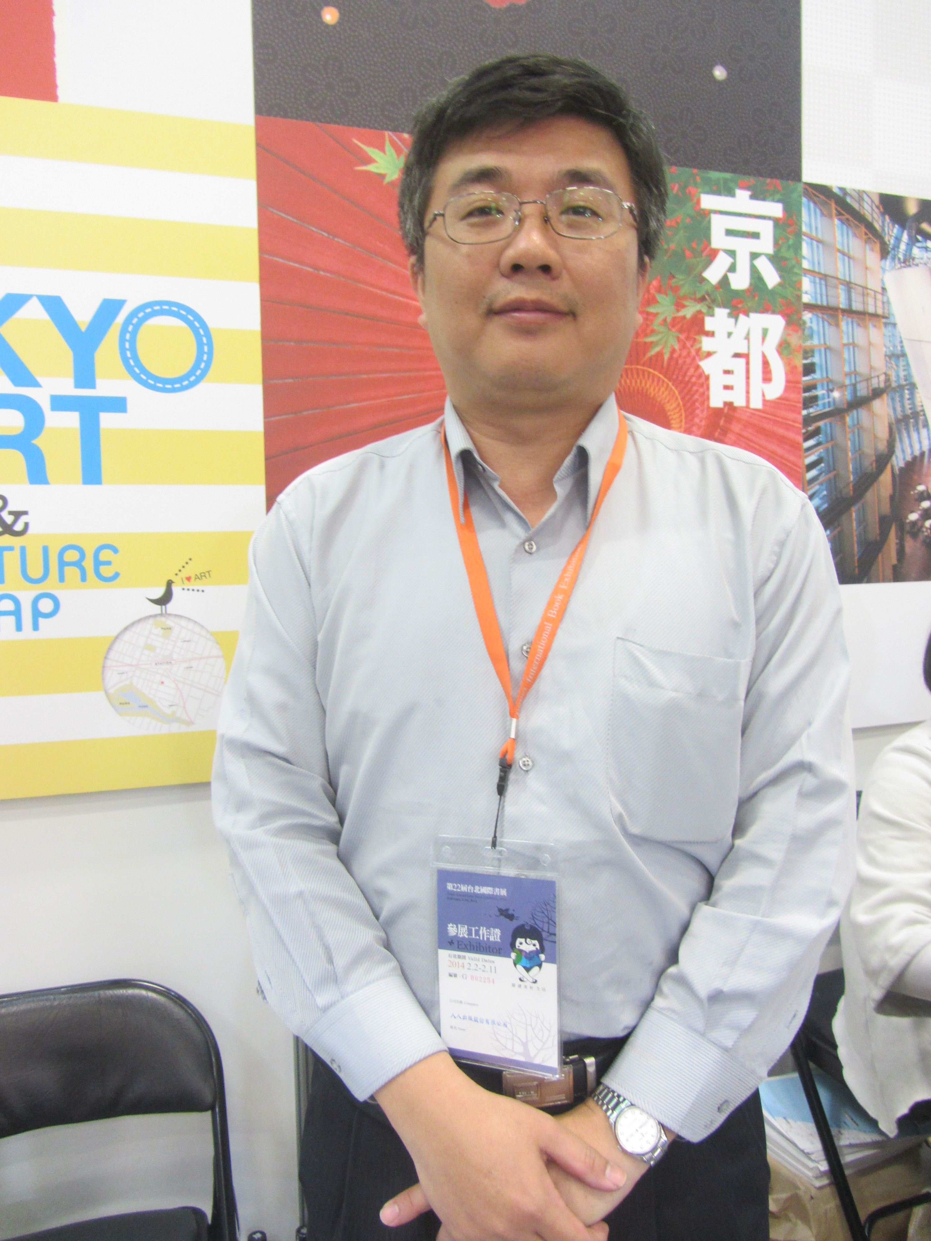 Su Chao-hsu in Jen Jen Publishing booth, 2014 Taipei International Book Exhibition.